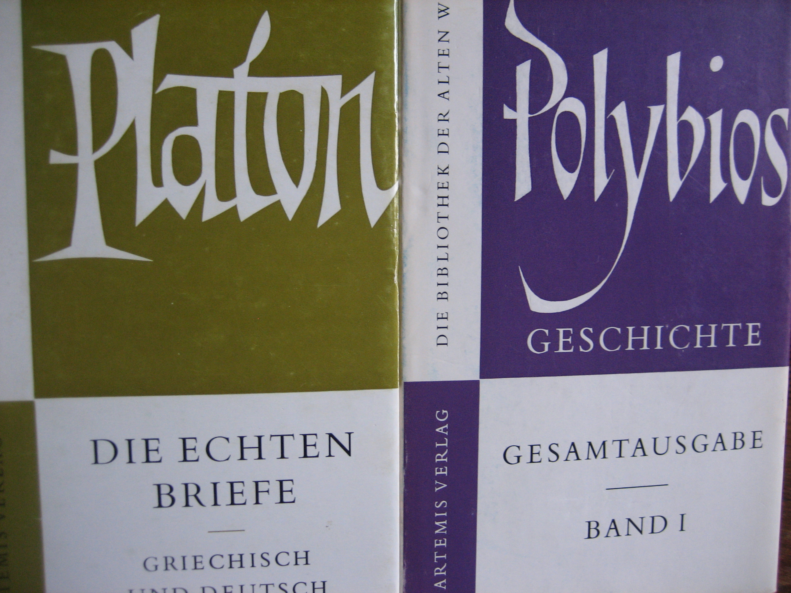 Typical dust jacket of "Bibliothek der Alten Welt"